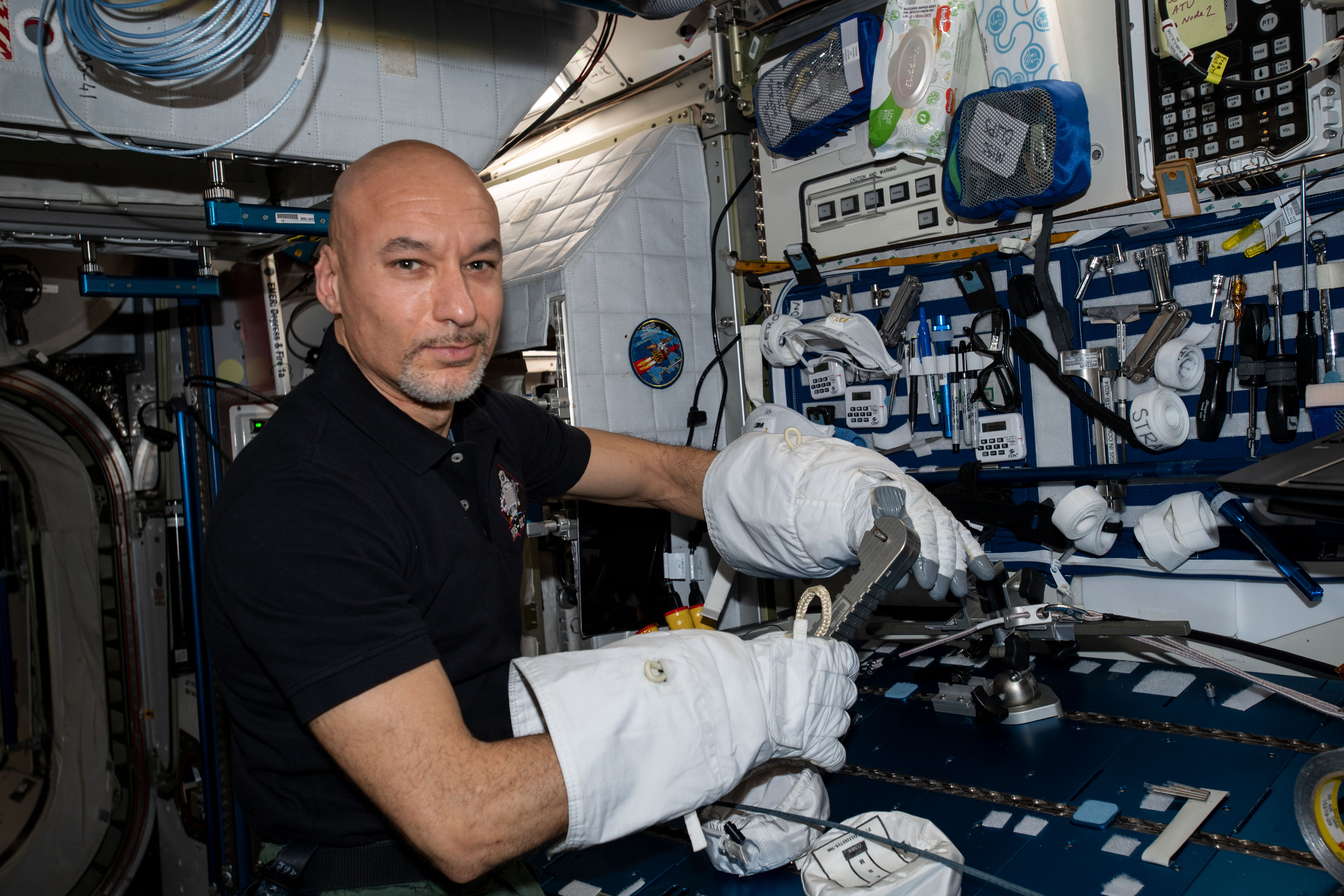 ESA (European Space Agency) astronaut Luca Parmitano tests the usage of specialized spacewalking tools while wearing U.S. spacesuit gloves. The tools were designed specifically for the complex repair work planned for the International Space Station's cosmic particle detector, the Alpha Magnetic Spectrometer.